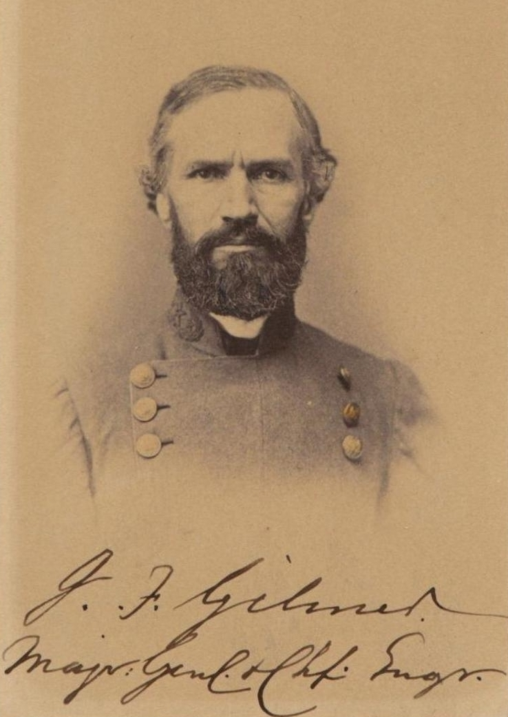 Carte-de-visite of a bust portrait of Jeremy Francis Gilmer in uniform. Inscription on front: J. F. Gilmer, Major, Genl. & Chief Engineer. Inscription on back: Album P, GA collection p. 32. From the Collections of the Confederate Memorial Literary Society managed by the Virginia Historical Society